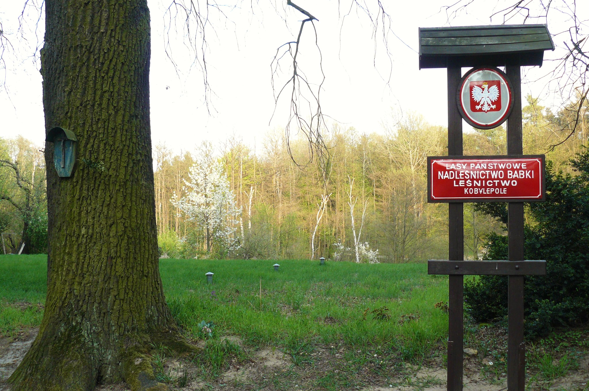 Struga Valley, Poznan.